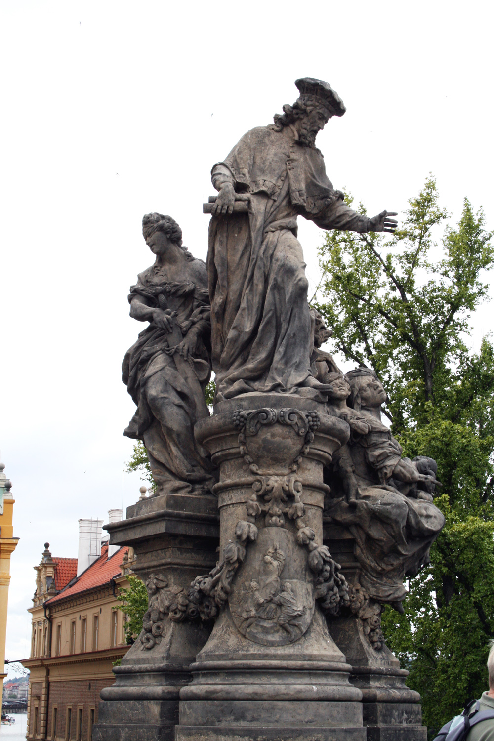 Prague, Charles bridge St Ives, Svatý Ivo (M.B.Braun) photo July 2007 Author= Karelj